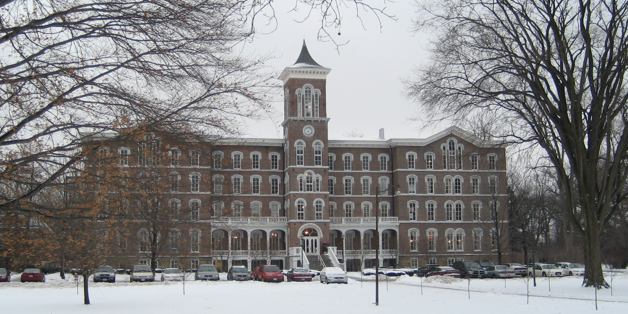 Front of College Hall, the main administration building of Lake Erie College, in Painesville, Ohio, United States. Built in 1859, the building is listed on the National Register of Historic Places.